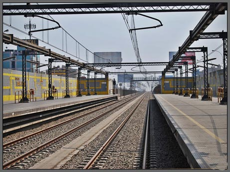 San Juan Station, Lima Metro